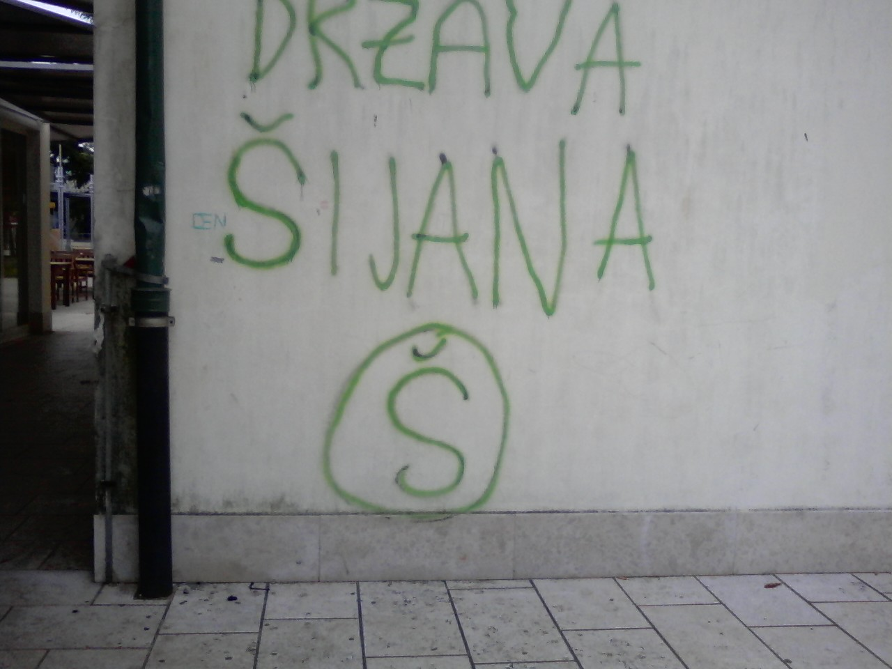 Photo of graffiti in Pula